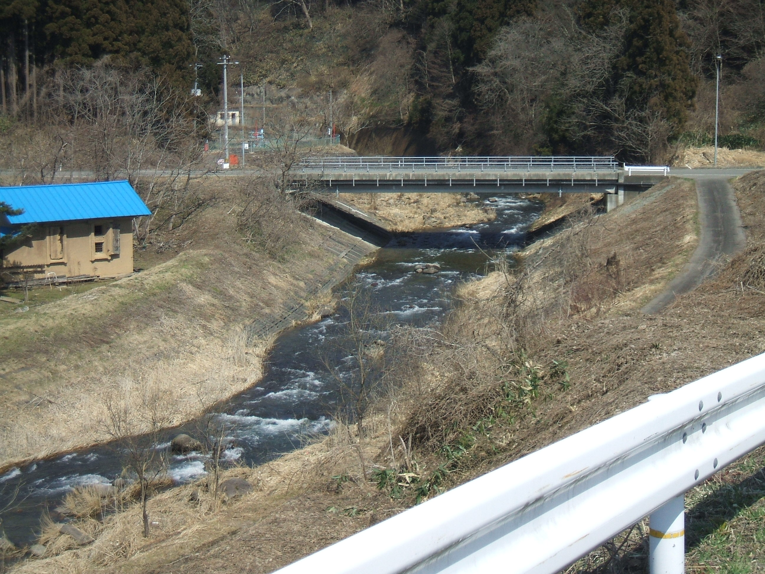 This is a landscape of Oshiogawa-river at Kitashiobara, Fukushima.